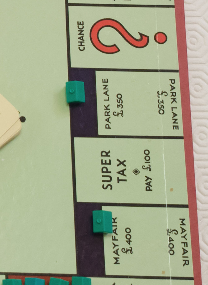 A close up of a corner of a British Monopoly board, showing the most and least expensive properties around the "GO" space.